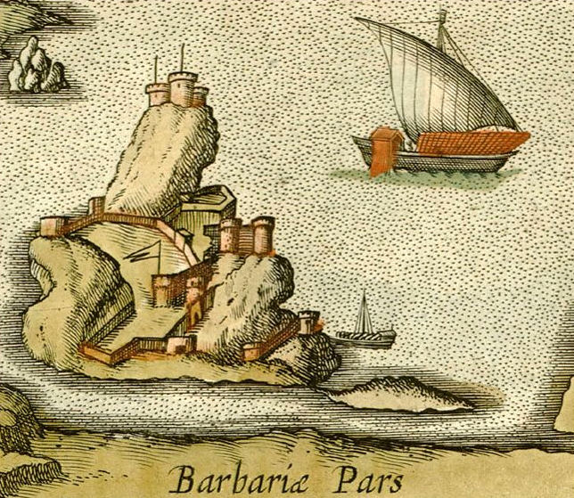 Penon de Velez before destruction